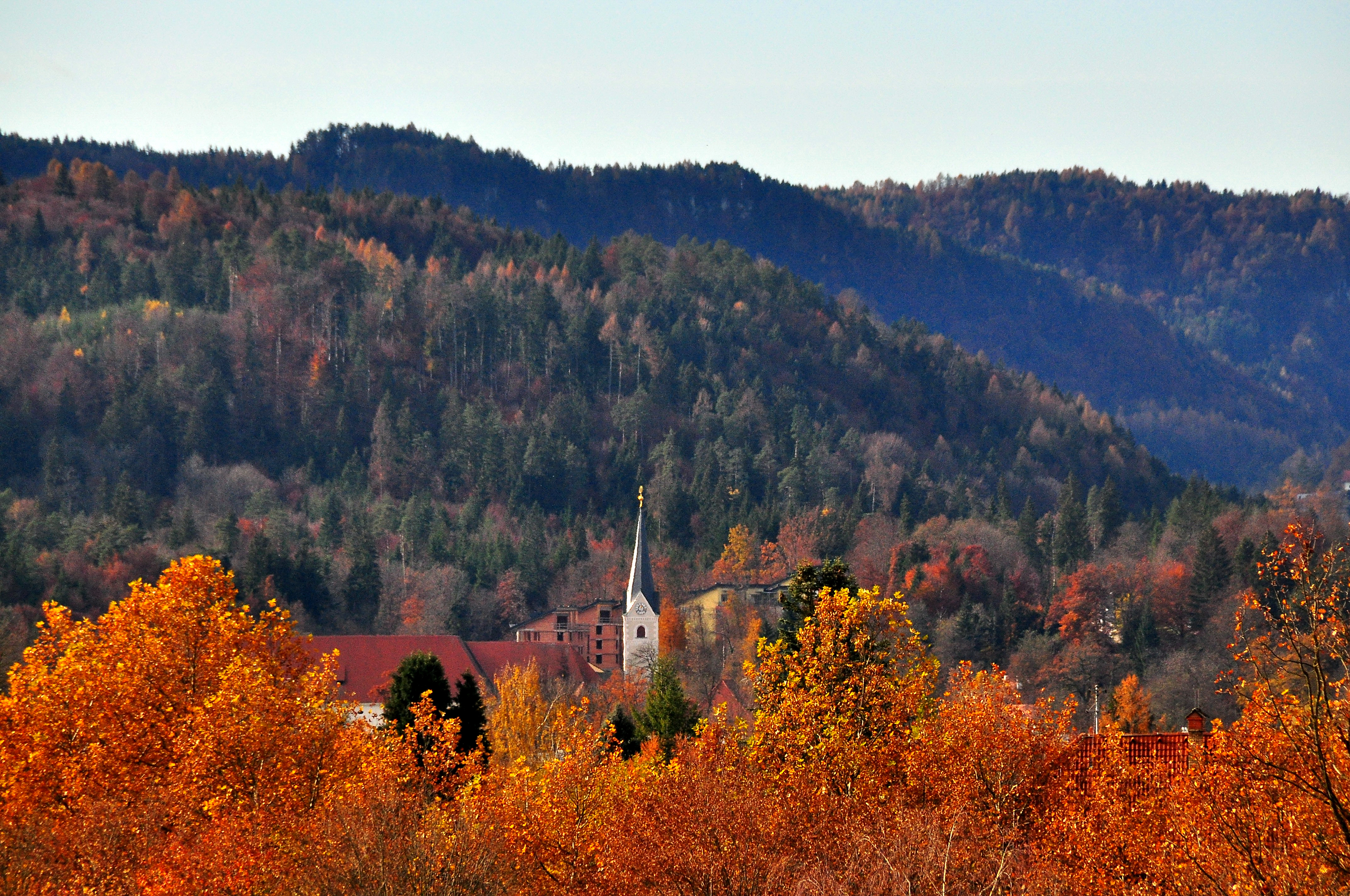 View at Viktring from Straschitz in the 13th district "Viktring" in the city of Klagenfurt, Carinthia, Austria